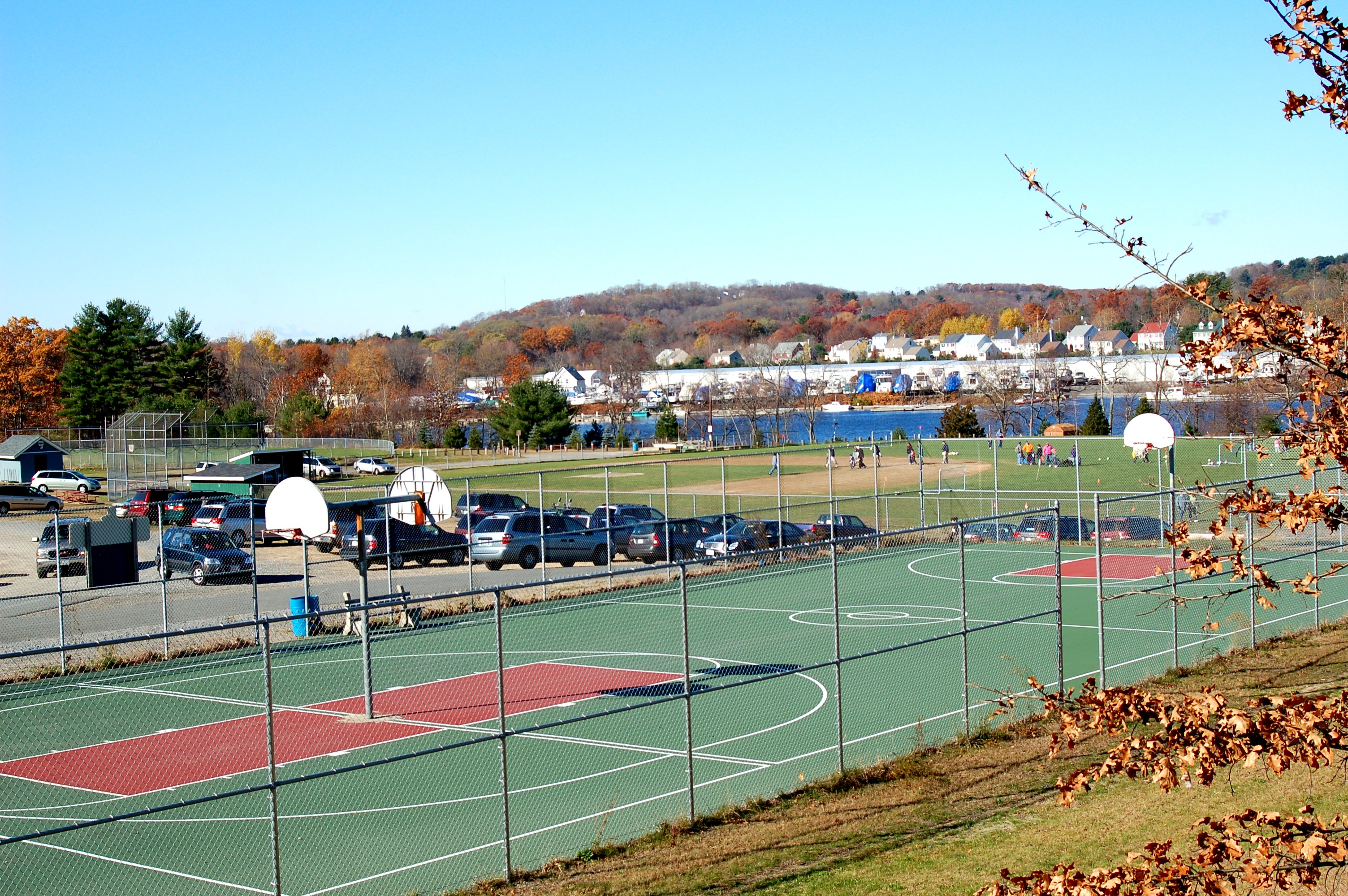 The Pines recreation area in Groveland, Massachusetts. Photo taken by Author, Richard B. Johnson